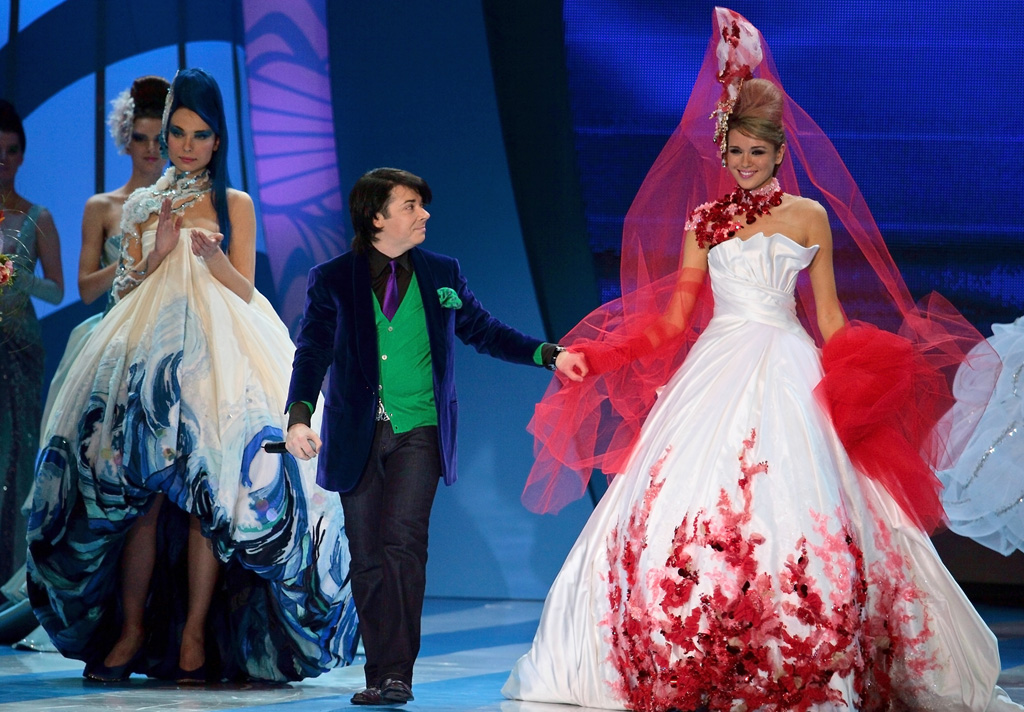 “Fashion designer Valentin Yudashkin presents Marine Collection”. Fashion designer Valentin Yudashkin presenting her new Marine Collection at the Grand Kremlin Palace during the traditional March 8 show.